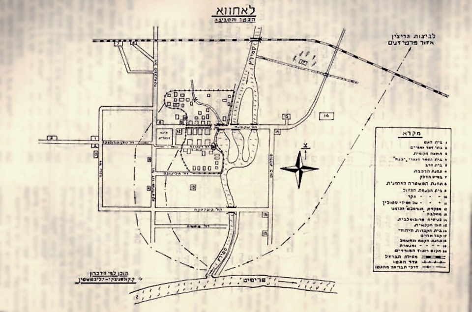 Photo reproduction of map showing Lachwa ghetto and surroundings (from Rishonim la-mered: Lachwa [First Ghetto to Revolt: Lachwa] (Tel Aviv: Entsyklopedyah shel Galuyot, 1957).